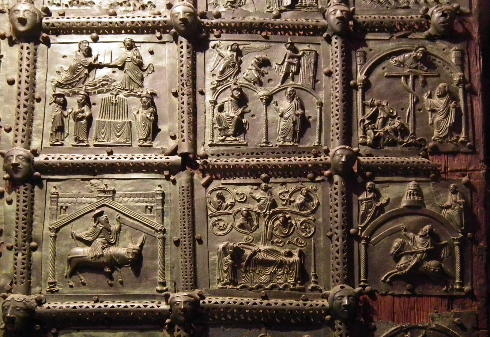 Details on the right panel of the Bronze door. Basilica of San Zeno, Verona Native nameBasilica di San ZenoLocationVerona, Veneto, ItalyCoordinates45° 26′ 33″ N, 10° 58′ 45″ E Established12th/13th centuryWebsite